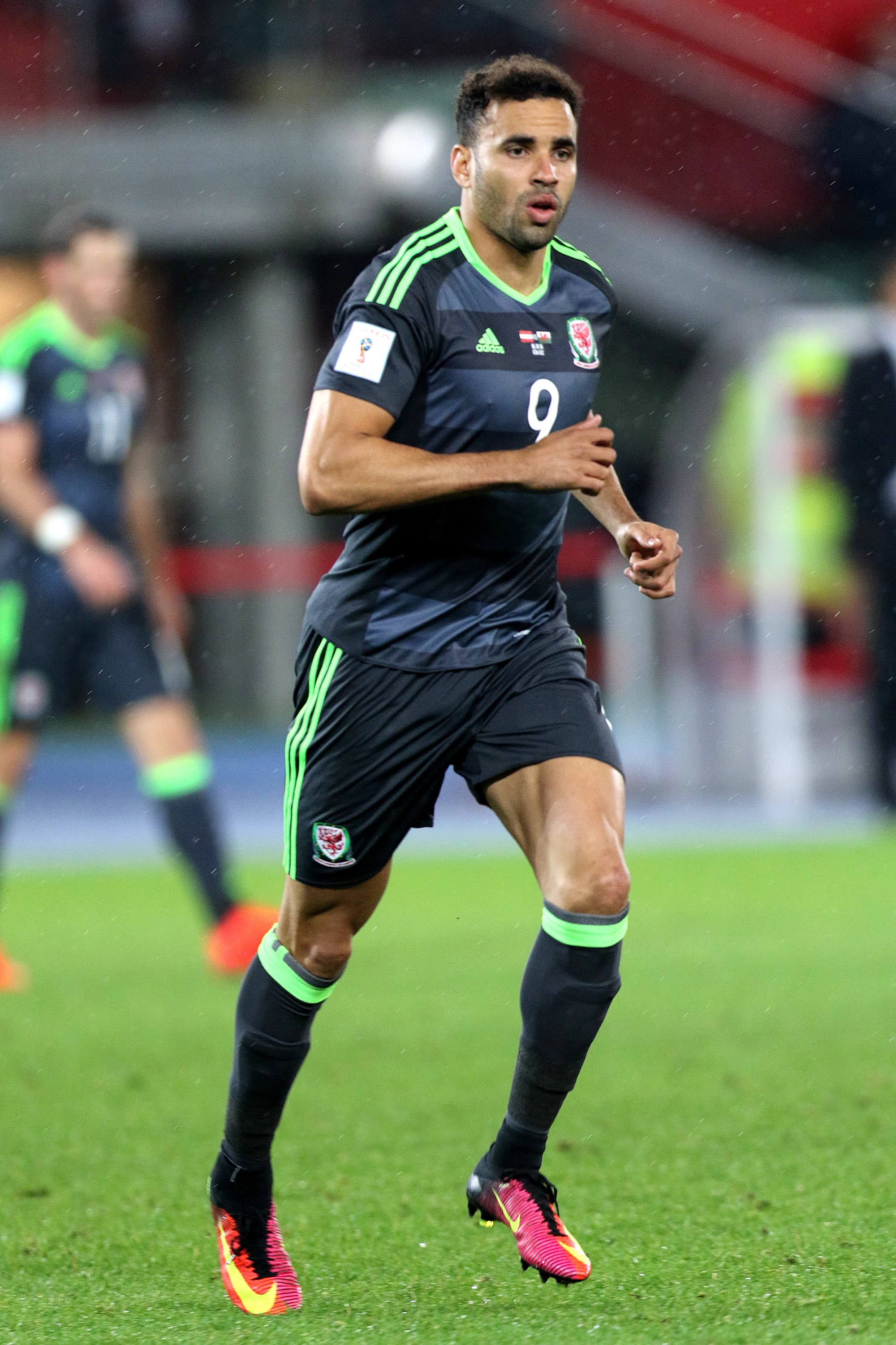 2018 FIFA World Cup qualification – UEFA Group D) – Austria (red shirts) vs. Wales (white shirts) 2-2 (1-2) – 2016-10-06 in Vienna, Ernst-Happel-Stadion – The photo shows Hal Robson-Kanu.